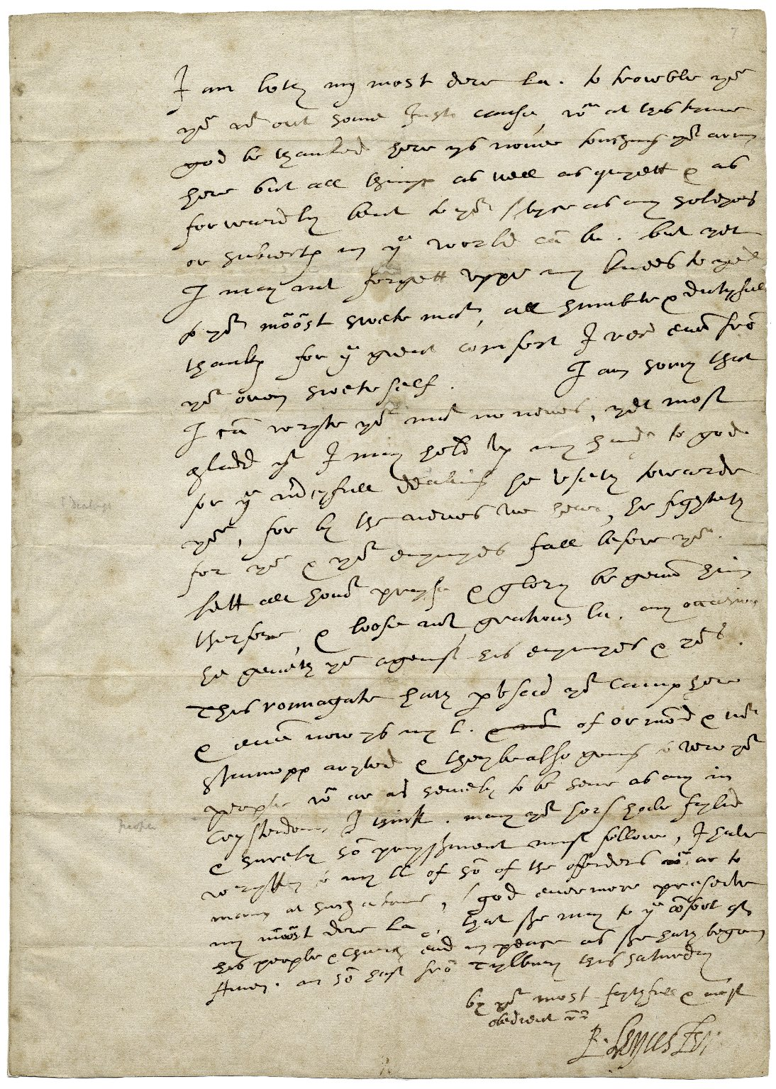 A personal letter from Robert Dudley, 1st Earl of Leicester, a great favorite of Elizabeth I to the queen, written a month before his death.